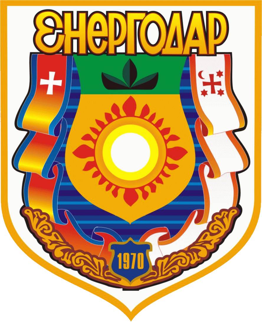 City coat of arms Енергодар Zaporizhia Oblast, Ukraine.